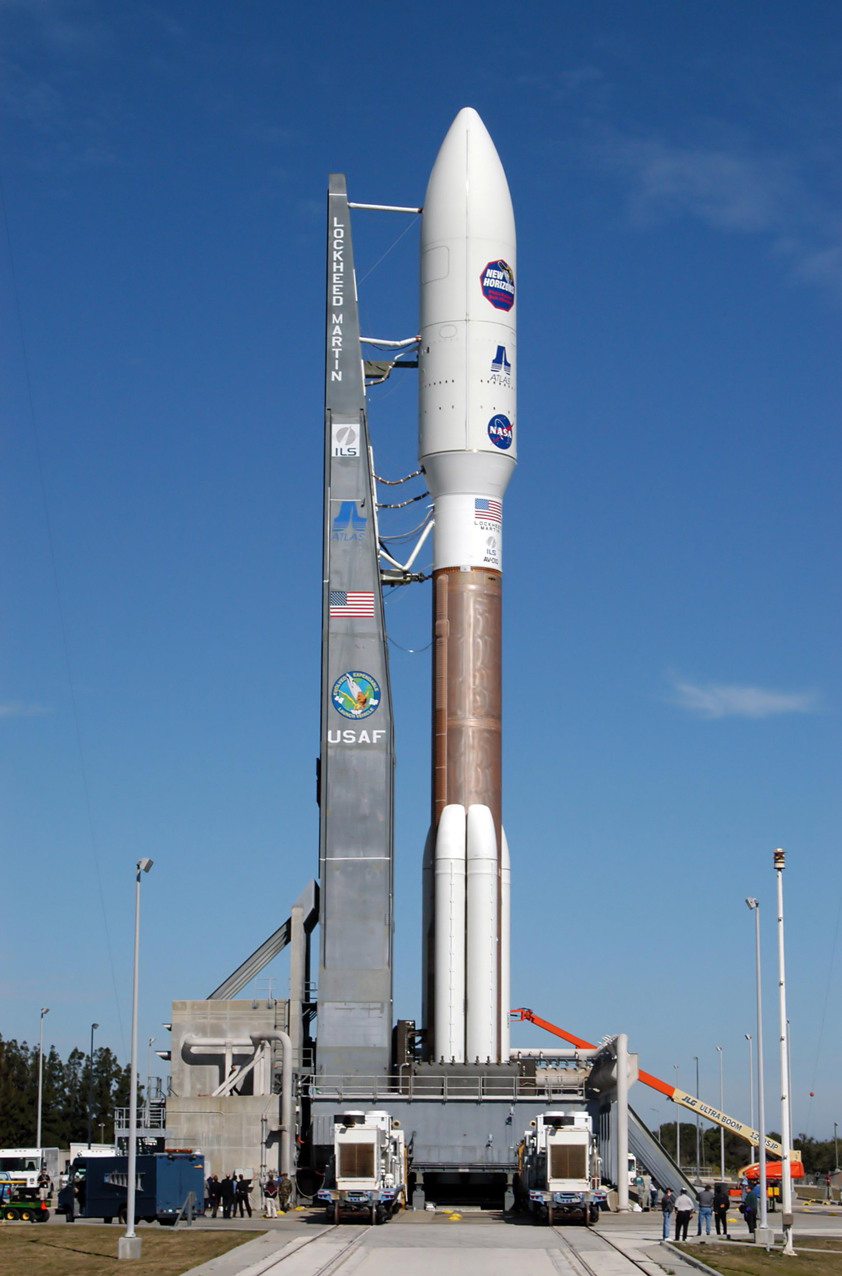 An Atlas V 551 with the New Horizons Deep Space Probe, after the roll out, on Launch Pad 41 in Cape Canaveral. KENNEDY SPACE CENTER, FLA. – On Complex 41 at Cape Canaveral Air Force Station, the Atlas V expendable launch vehicle with the New Horizons spacecraft settles into position with the launcher umbilical tower on the pad. The liftoff is scheduled for 1:24 p.m. EST Jan. 17. After its launch aboard the Atlas V, the compact, 1,050-pound piano-sized probe will get a boost from a kick-stage solid propellant motor for its journey to Pluto. New Horizons will be the fastest spacecraft ever launched, reaching lunar orbit distance in just nine hours and passing Jupiter 13 months later. The New Horizons science payload, developed under direction of Southwest Research Institute, includes imaging infrared and ultraviolet spectrometers, a multi-color camera, a long-range telescopic camera, two particle spectrometers, a space-dust detector and a radio science experiment. The dust counter was designed and built by students at the University of Colorado, Boulder. A launch before Feb. 3 allows New Horizons to fly past Jupiter in early 2007 and use the planet’s gravity as a slingshot toward Pluto. The Jupiter flyby trims the trip to Pluto by as many as five years and provides opportunities to test the spacecraft’s instruments and flyby capabilities on the Jupiter system. New Horizons could reach the Pluto system as early as mid-2015, conducting a five-month-long study possible only from the close-up vantage of a spacecraft.